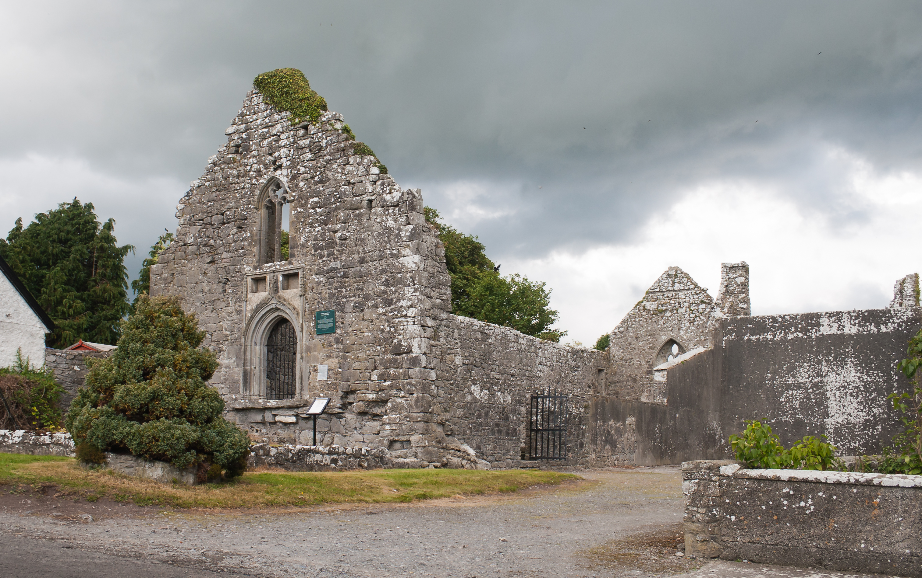 South-west view of the Augustinian Priory St. Ruadhan in Lorrha.